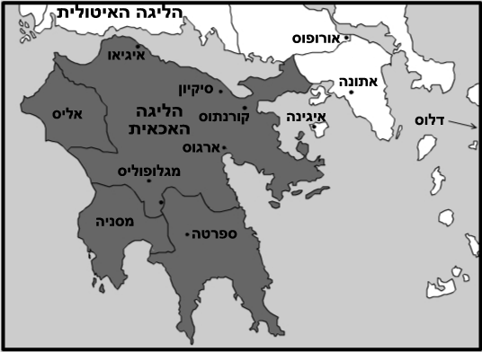 Achaean League 150 BC.